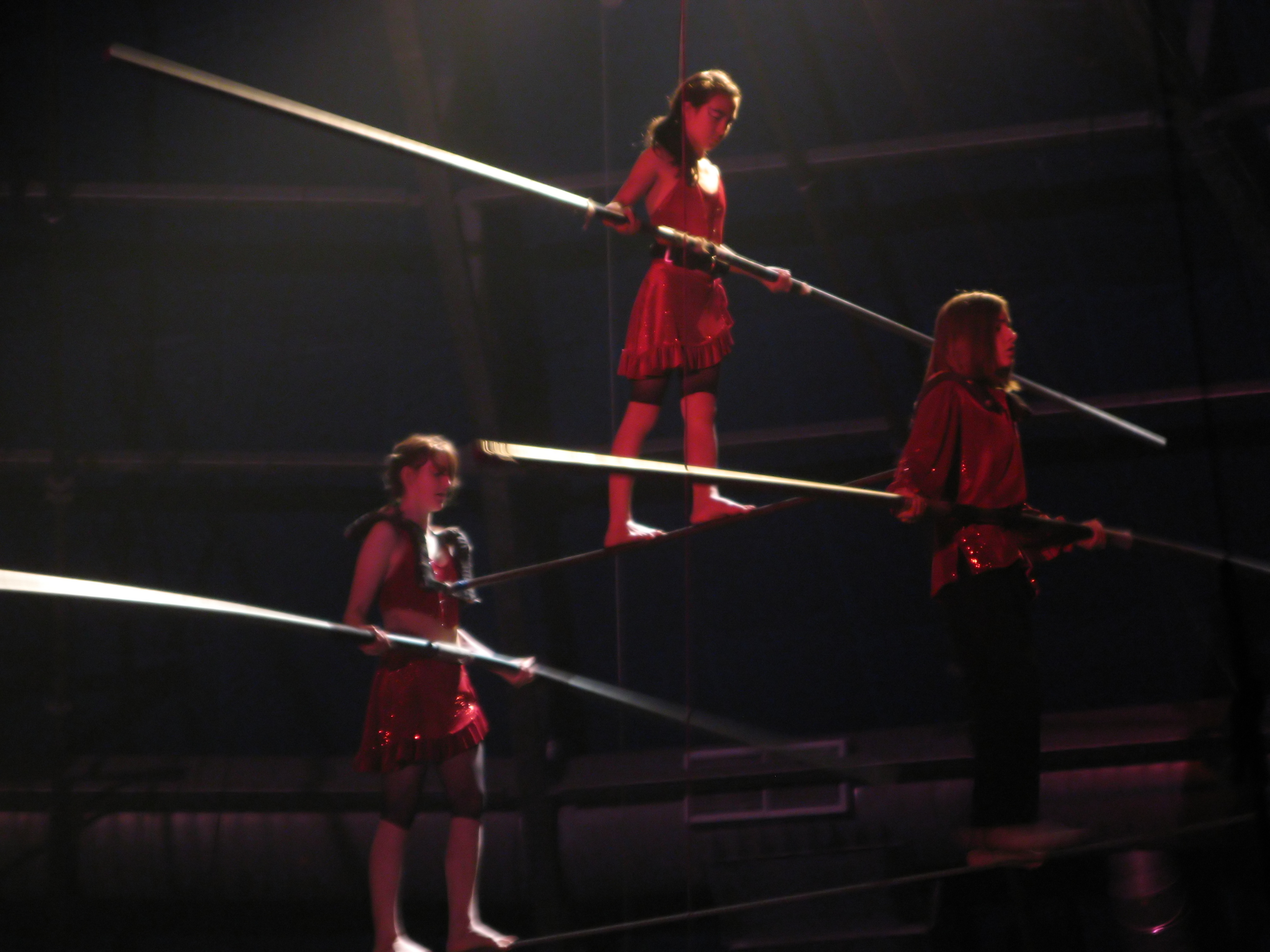 Young performers at Circus Juventas doing a tightrope walking pyramid.